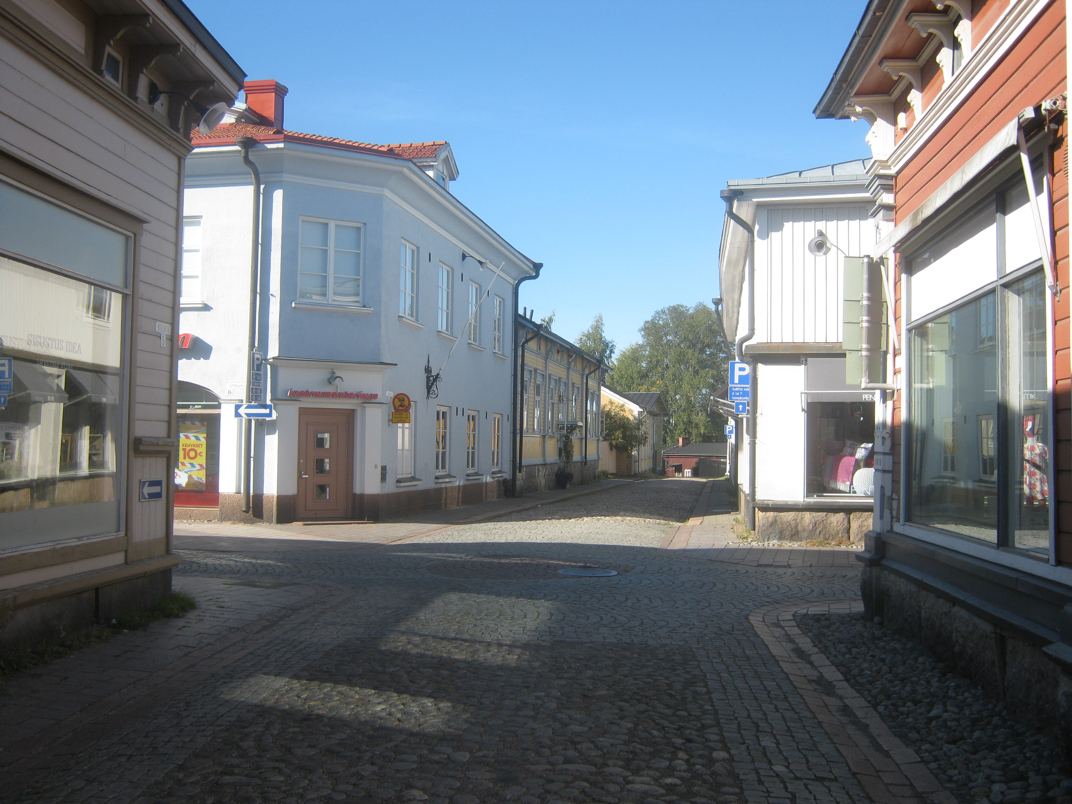 Crossing of streets Kauppakatu and Koulukatu at Unesco World heritage site Old Rauma, Finland.